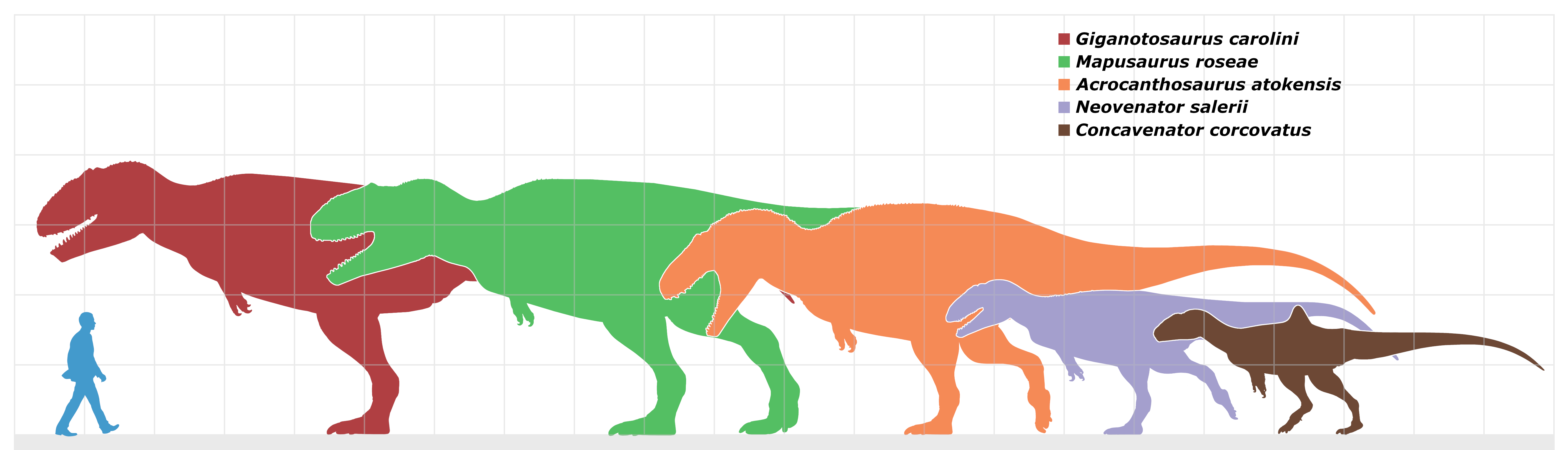 Carcharodontosaur scale chart, representing the most complete genera. Specimens from left to right: - MUCPv-Ch1 - MCF-PVPH-108.145 - NCSM 14345 - BMNH R10001 and MIWG 6348 - MCCM-LH 6666